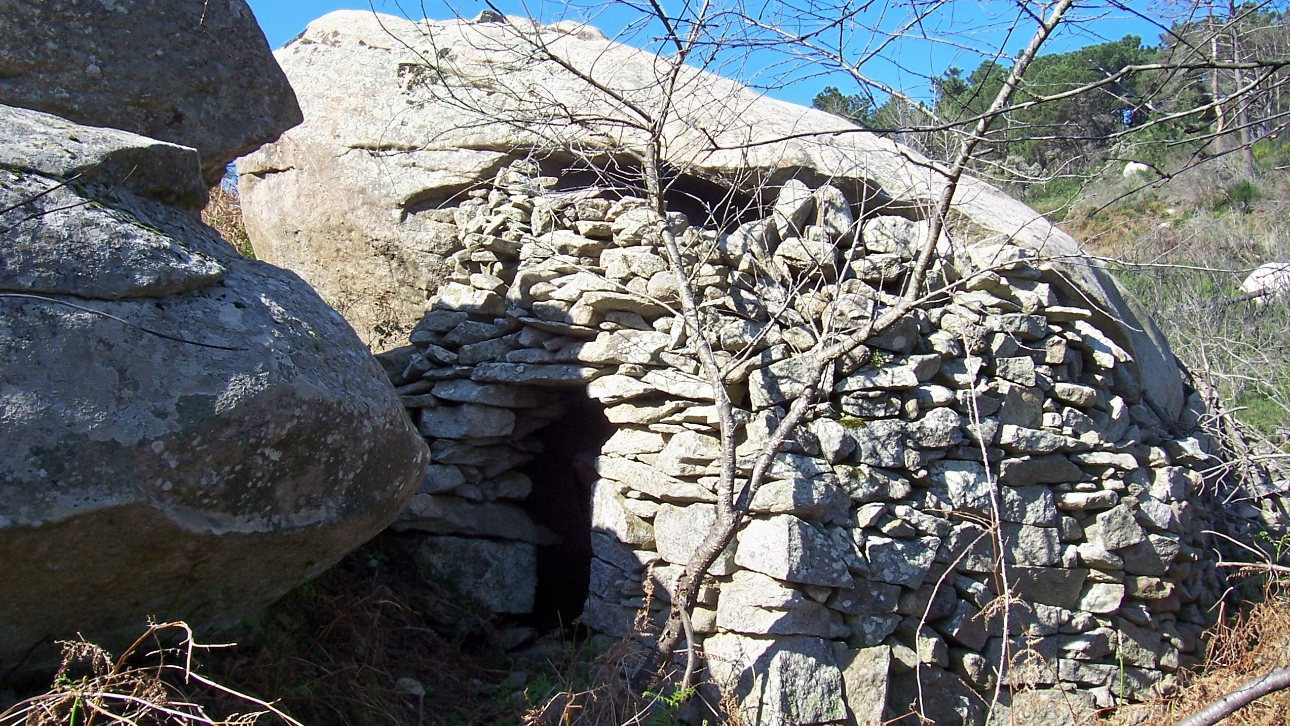 Elba island